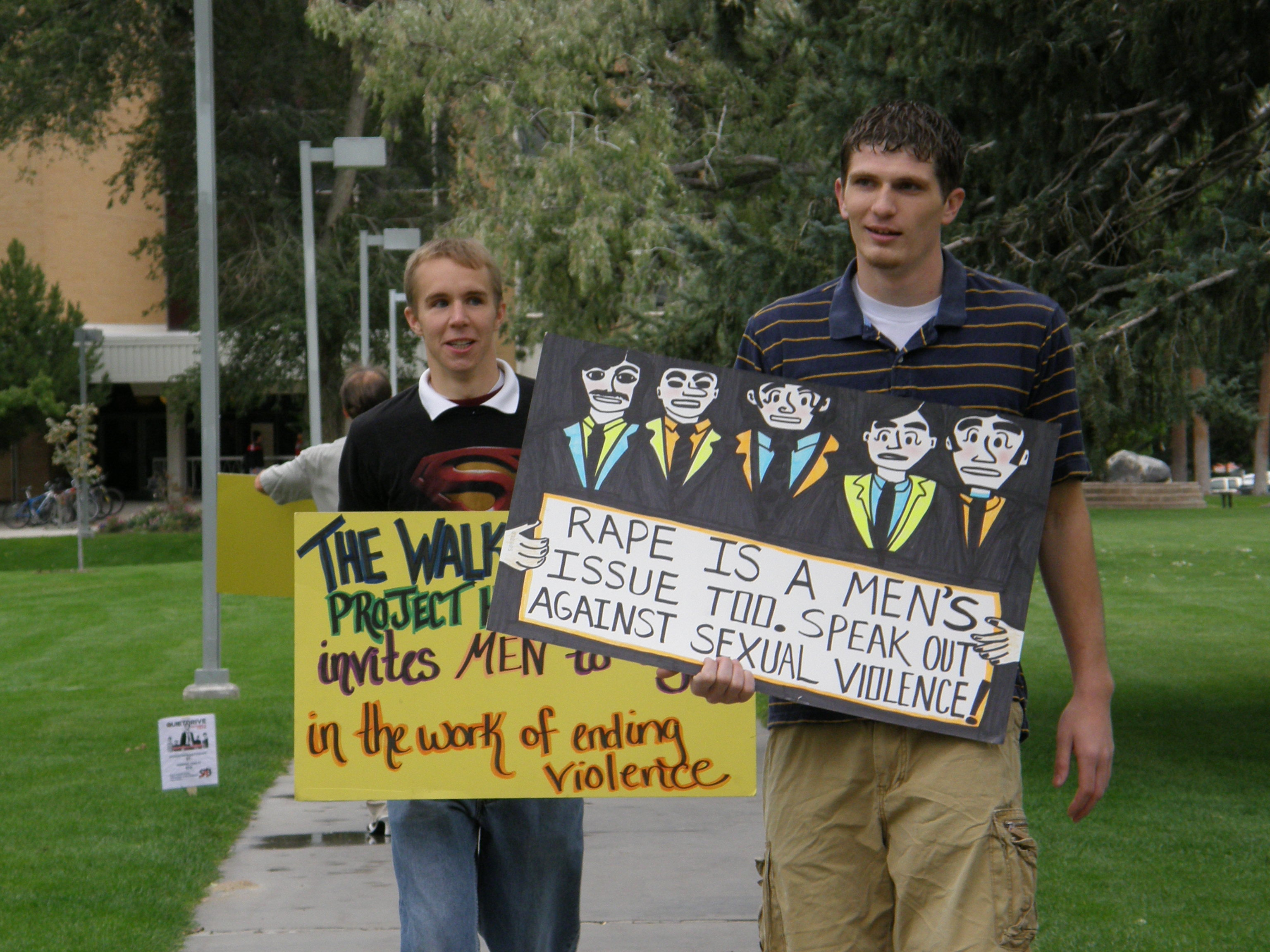 Photo from Walk a Mile in Her Shoes, a program aimed a preventing sexual assault by males.